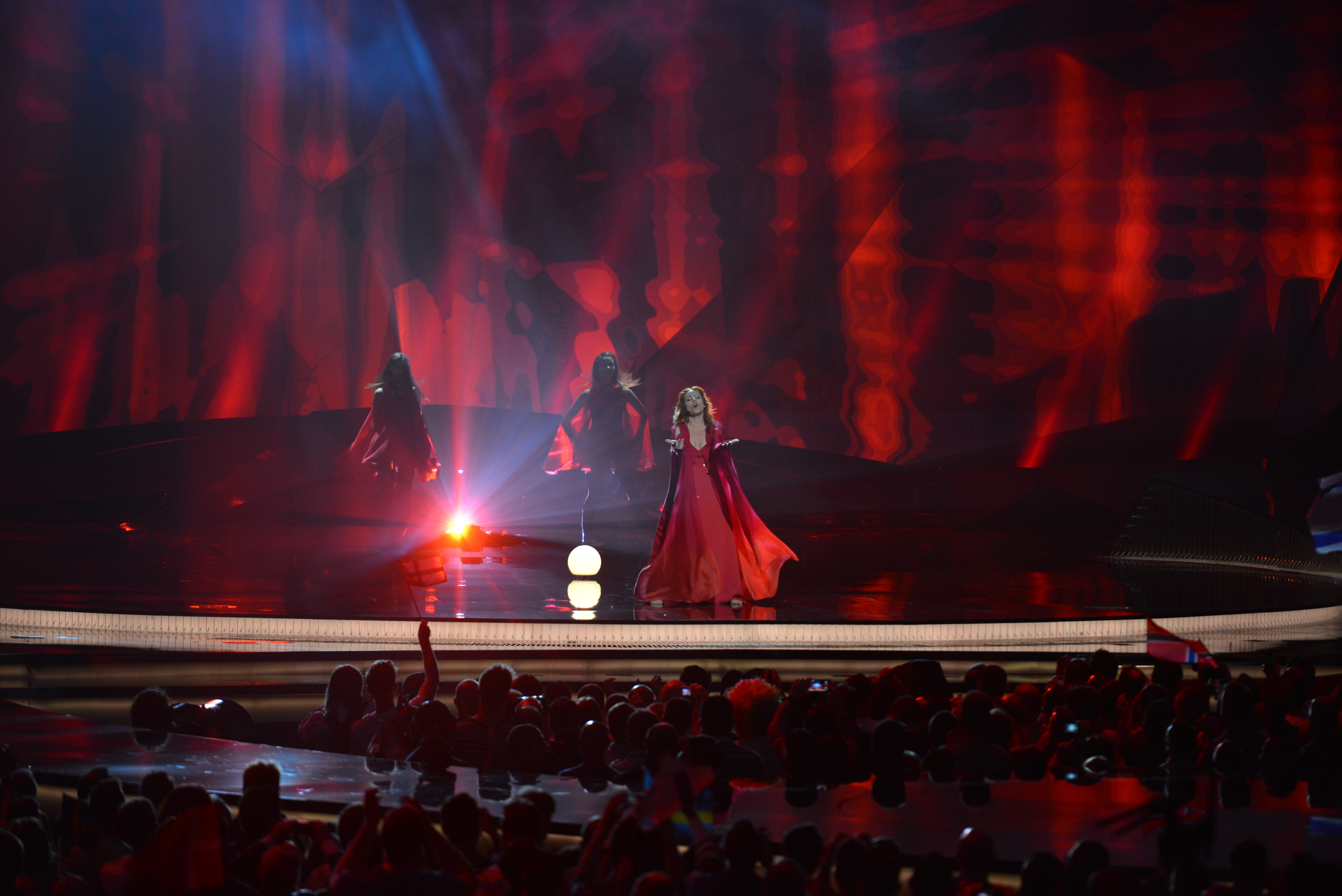 Valentina Monetta representing San Marino with the song "Crisalide (Vola)" during the second dress rehearsal of the second semi final of the Eurovision Song Contest 2013 in Malmö. (Help translate this text)